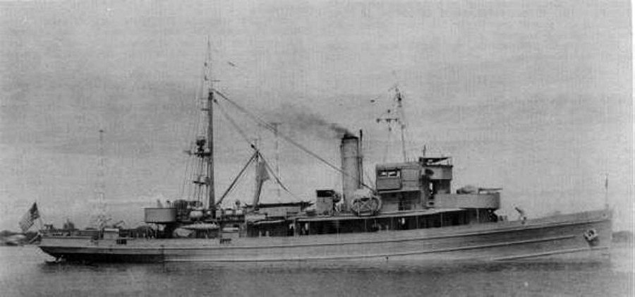 c. June 1941 Near Cavite, Philippines. National Archives photo 19-N-27110 from the Dictionary of American Naval Fighting Ships